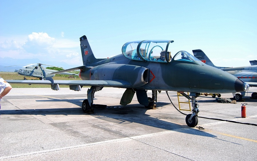 G4 Montenegro